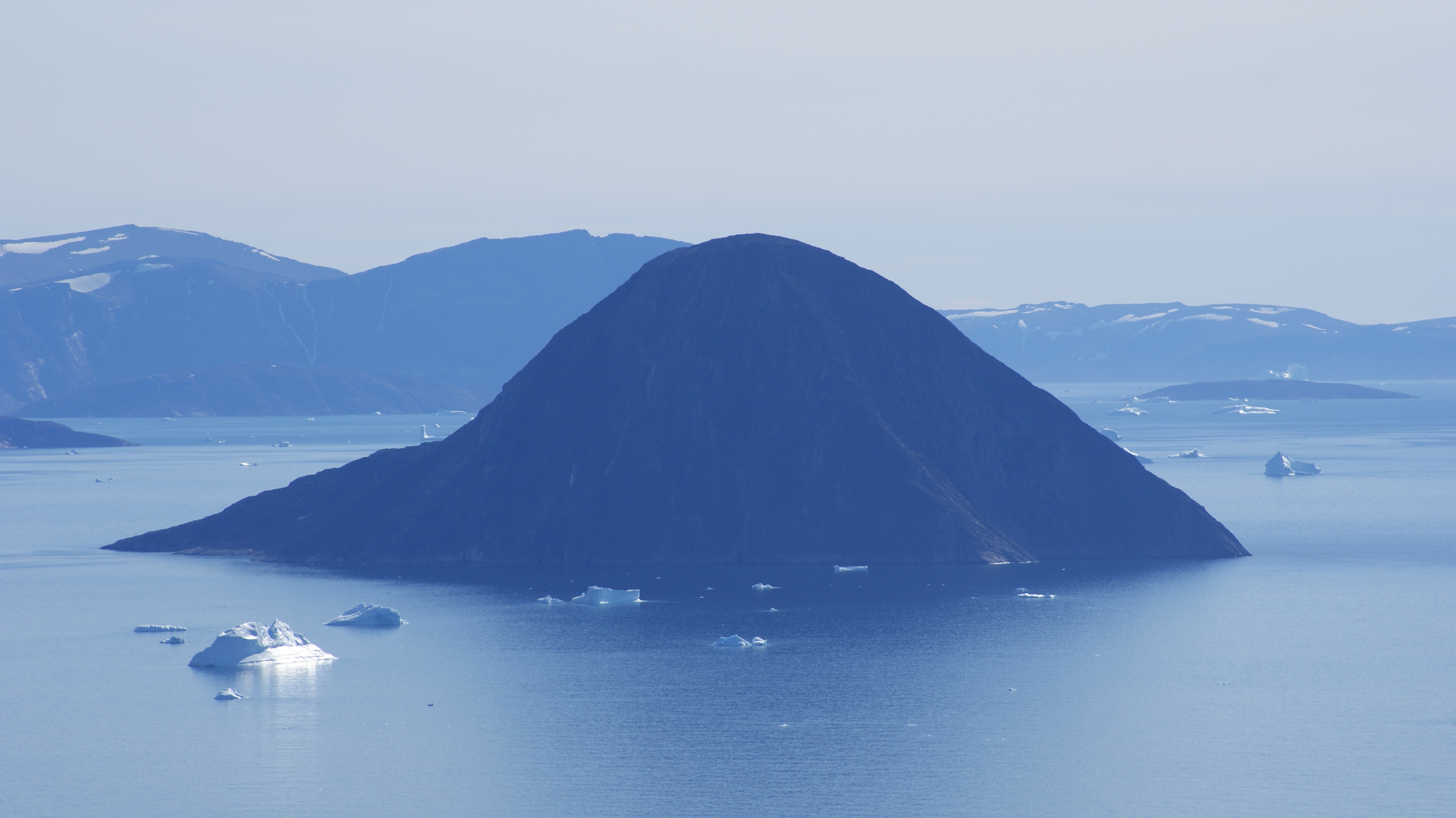 Sugar Loaf Island, Upernavik Archipelago, Greenland. Photographed from the ridge of Nuussuaq Peninsula. Nuussuaq settlement on the coast.